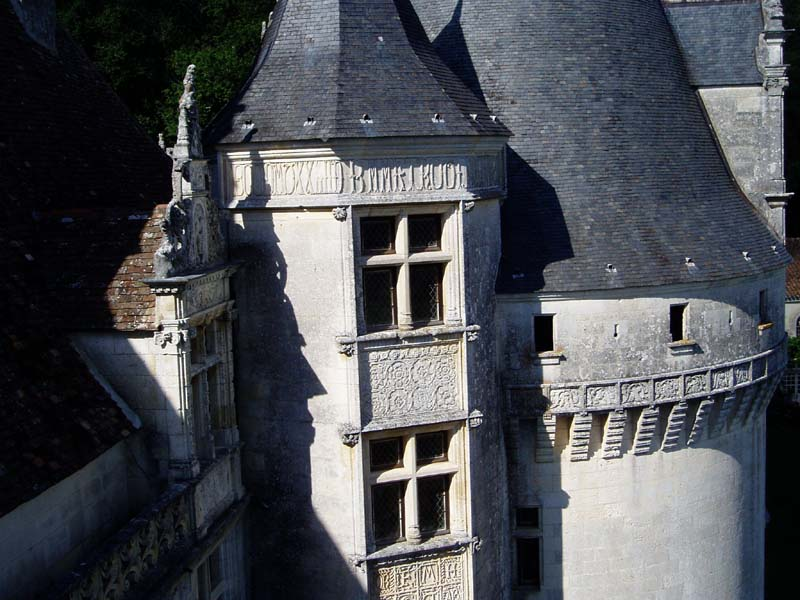 Château de Puyguilhem, Castle of Puyguilhem. Near Villars and Brantôme (Dordogne, France). Built in the XVIe century, it is an early renaissance castle under the Val de Loire style. (Detail)